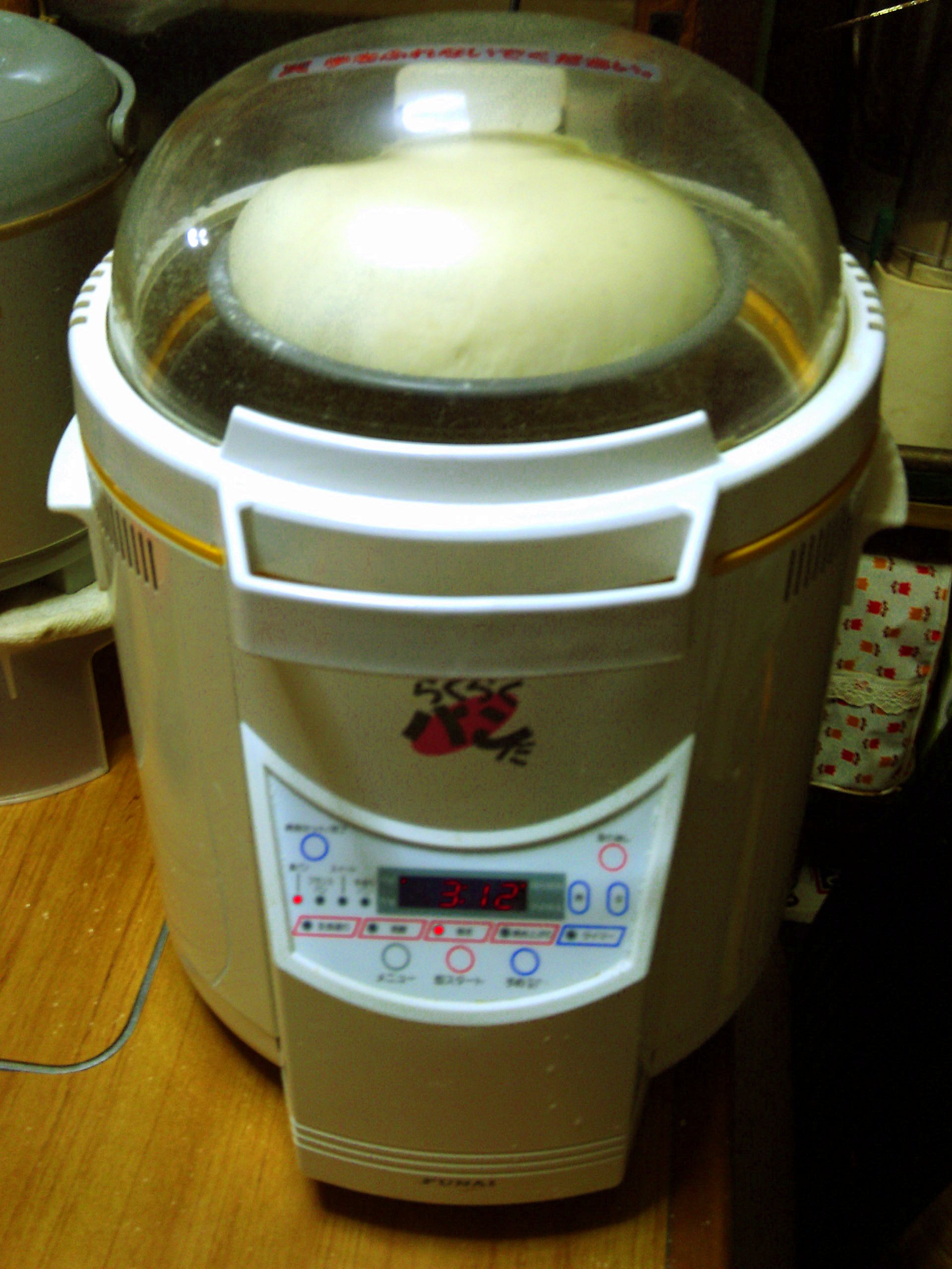 Bread_Maker(Funai) at MASA (talk)'s HOME